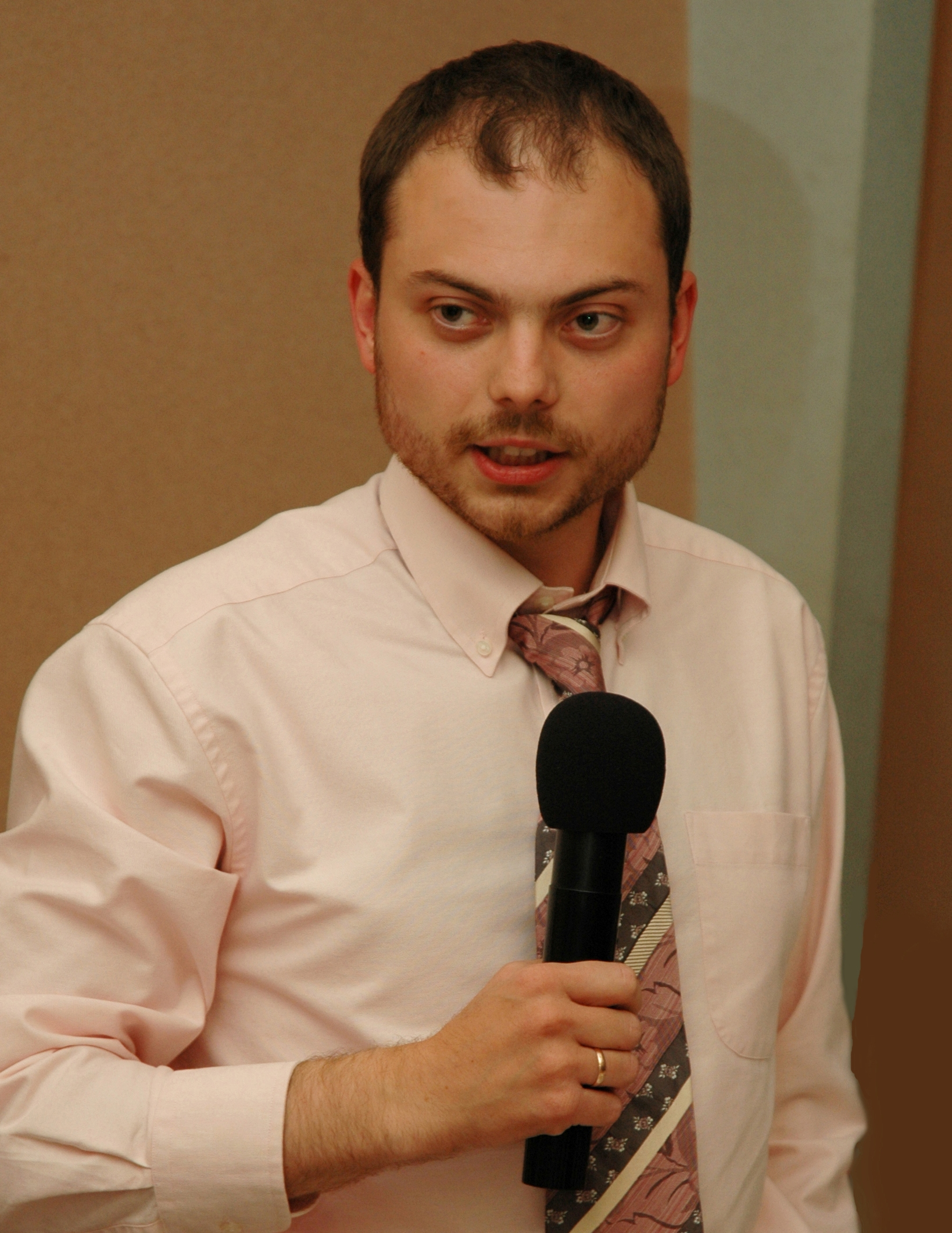 Vladimir Kara-Murza Jr.